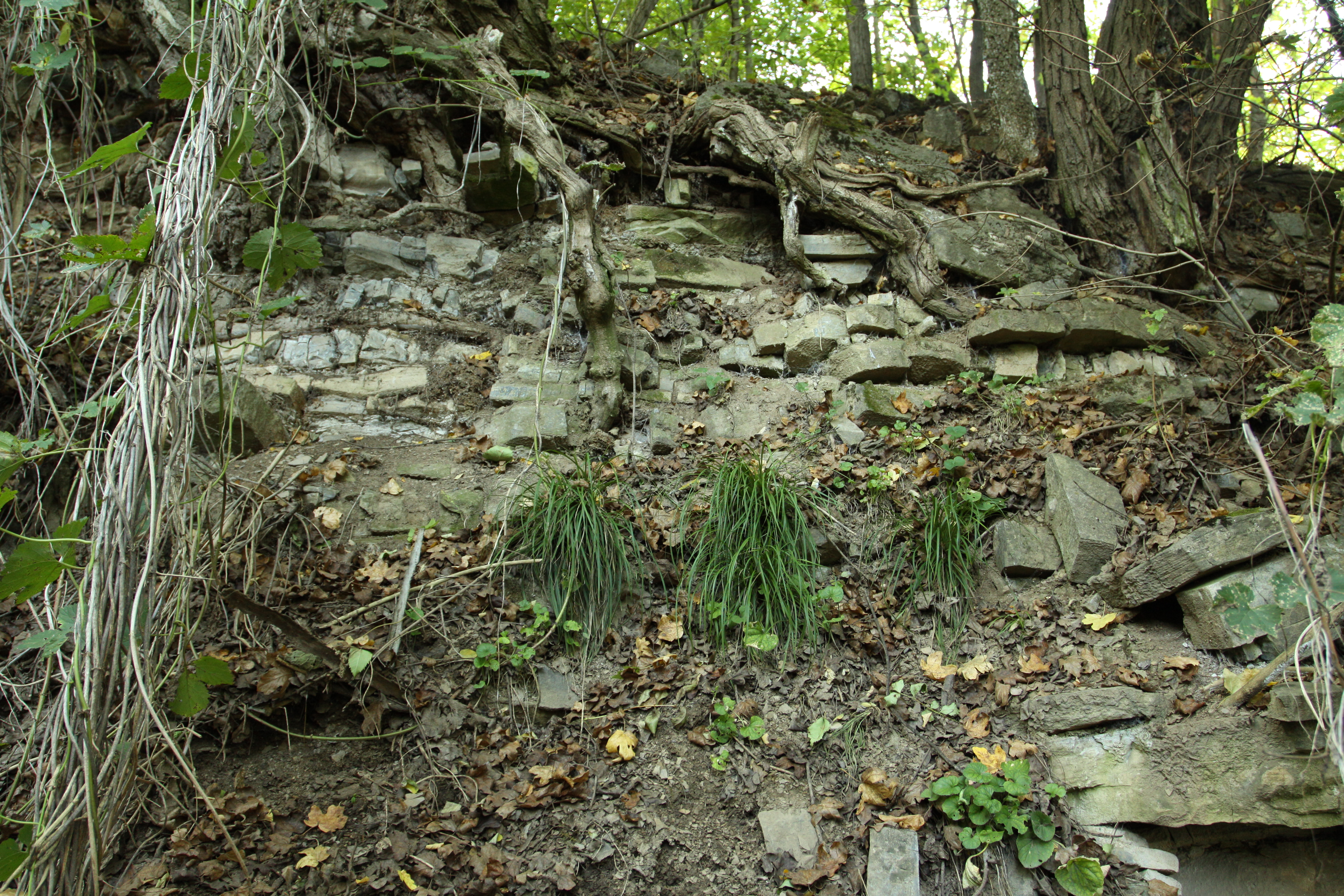 Natural monument Hvížďalka in Prague, Czech Republic - Google Maps - Google Earth